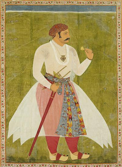 Portrait of Mewar ruler Maharana Karan Singh I (1620-1628),Mewar style